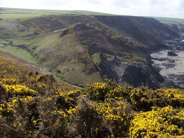 The Mountain A major landslip on the seaward side of The Mountain, and the mining activity of past years beyond it, overlooks Tregardock Beach